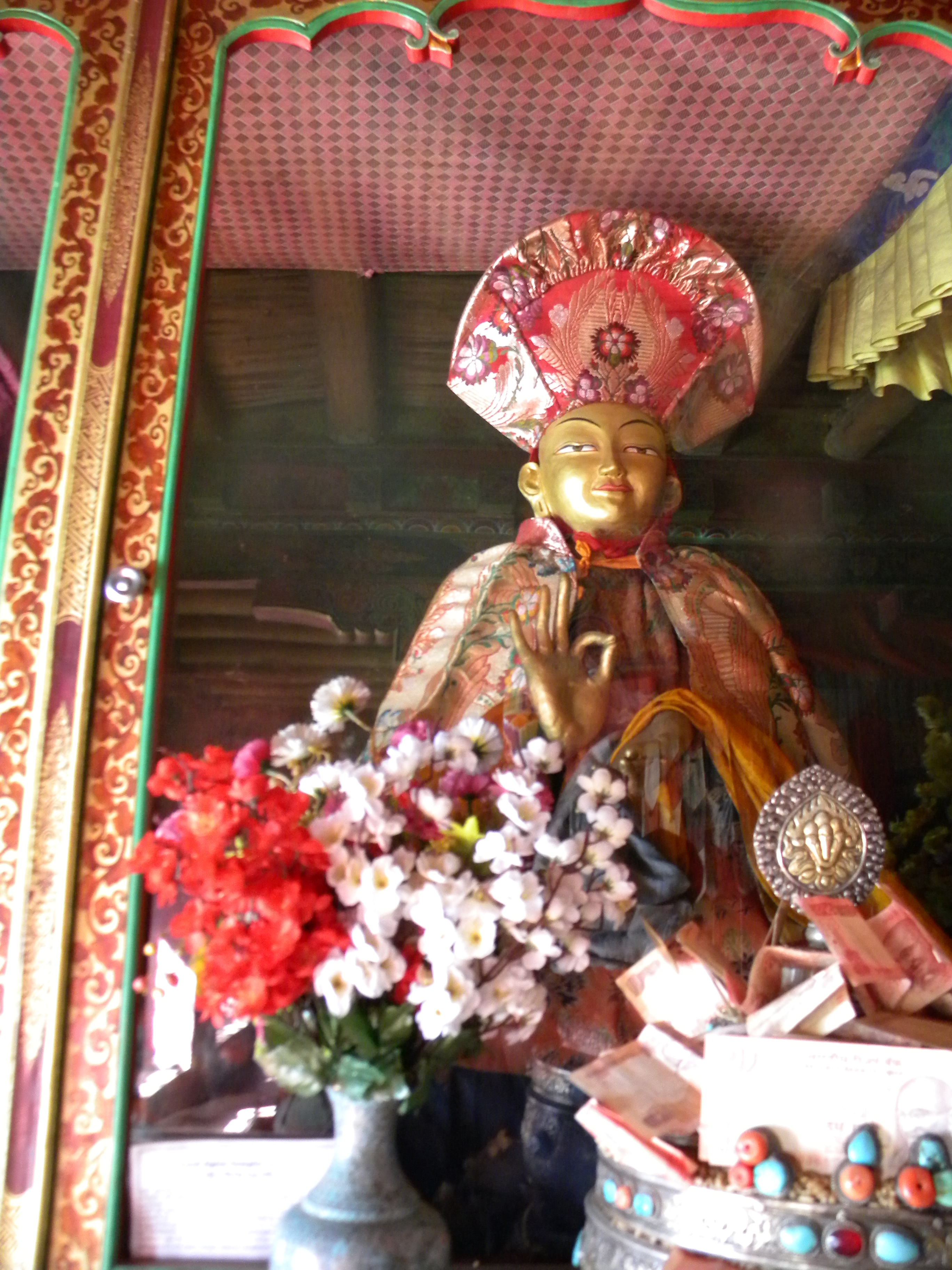 Jigten Sumgön (1143-1217), founder of the Drikung Kagyu lineage in Tibetan Buddhism. Photographed from Lamayuru Monastry